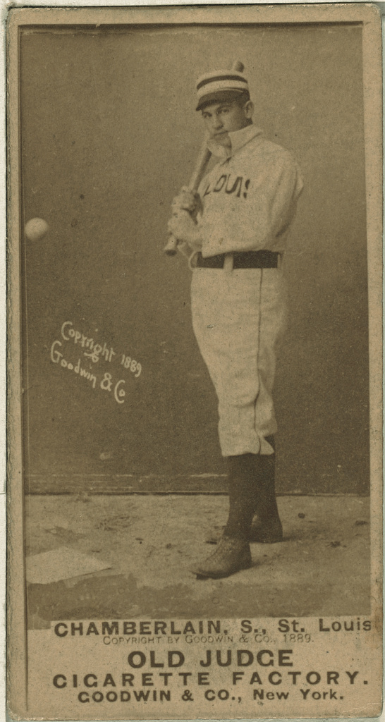 Title: Icebox Chamberlain, St. Louis Browns, baseball card portrait Abstract/medium: 1 photographic print : albumen.